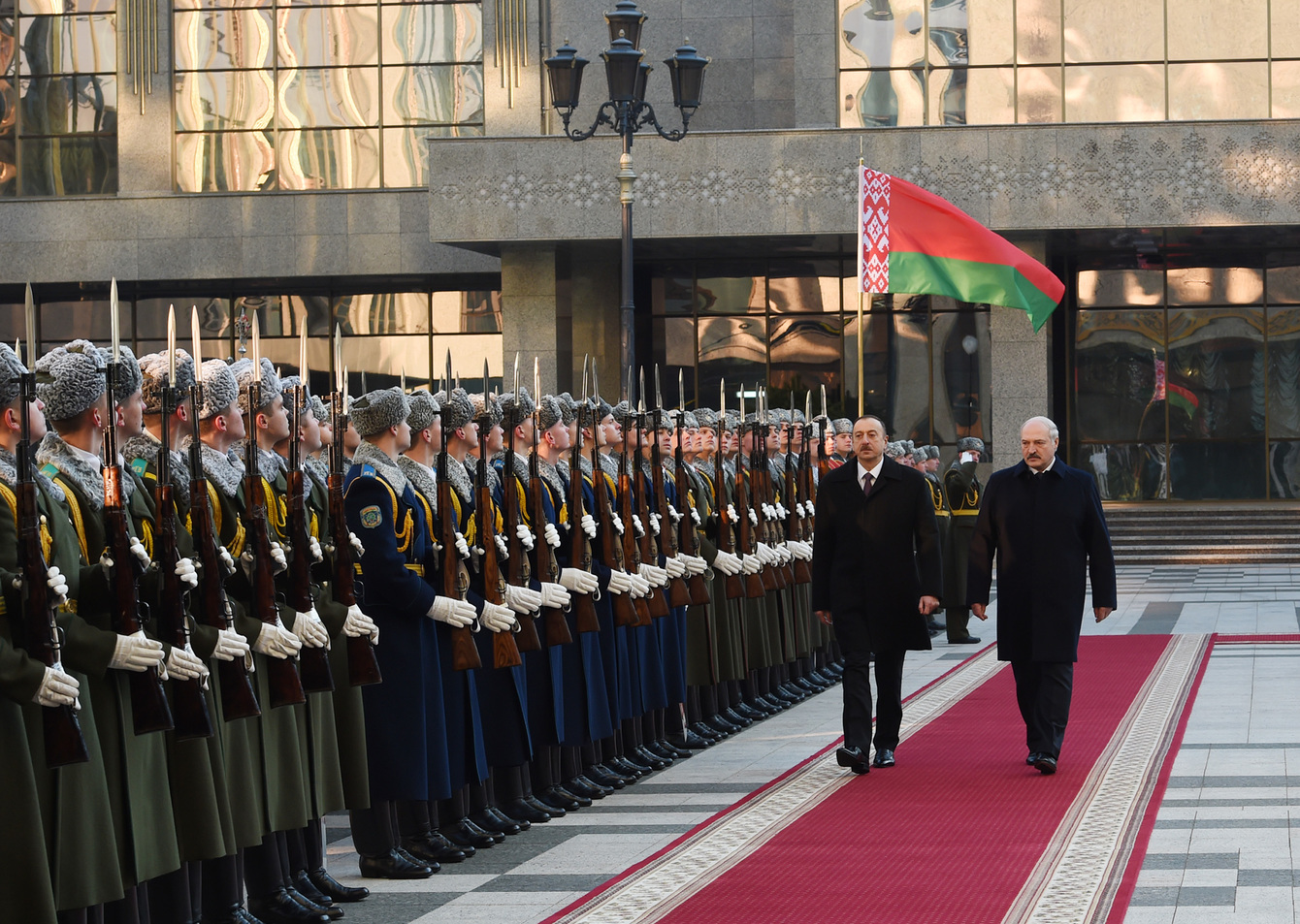 Official welcoming ceremony for Ilham Aliyev was held in Belarus